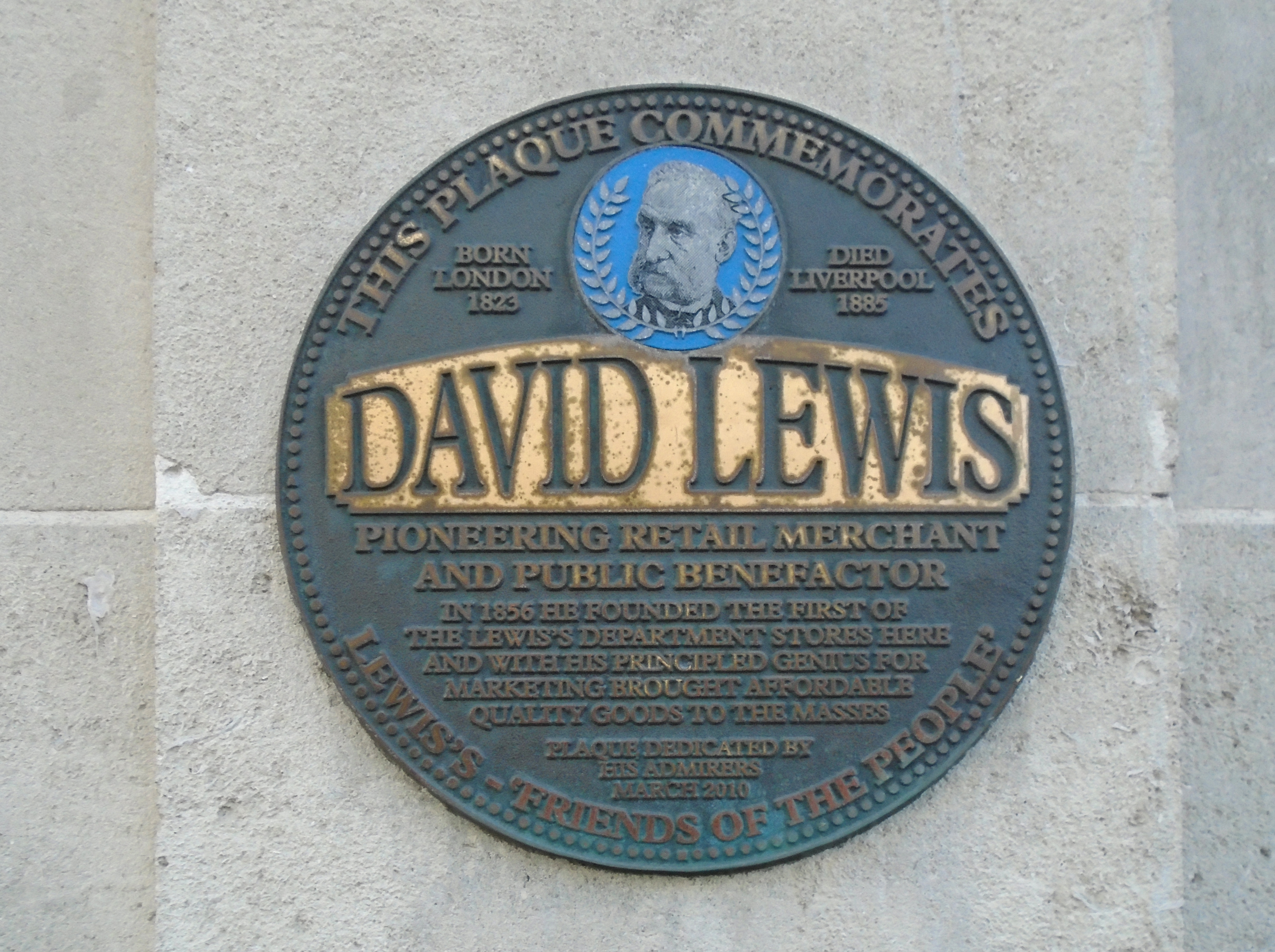 Plaque commemorating David Lewis on the wall of his eponymous store on Ranelagh Street, Liverpool.